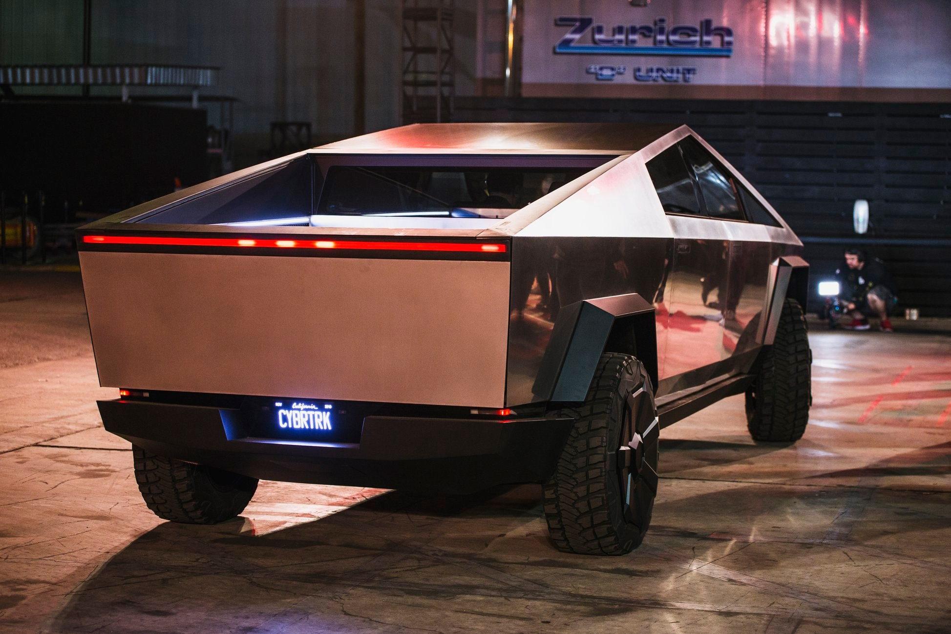 Tesla Cybertruck rear with tailgate and red lightbar and "Cybrtrk" California license plate.